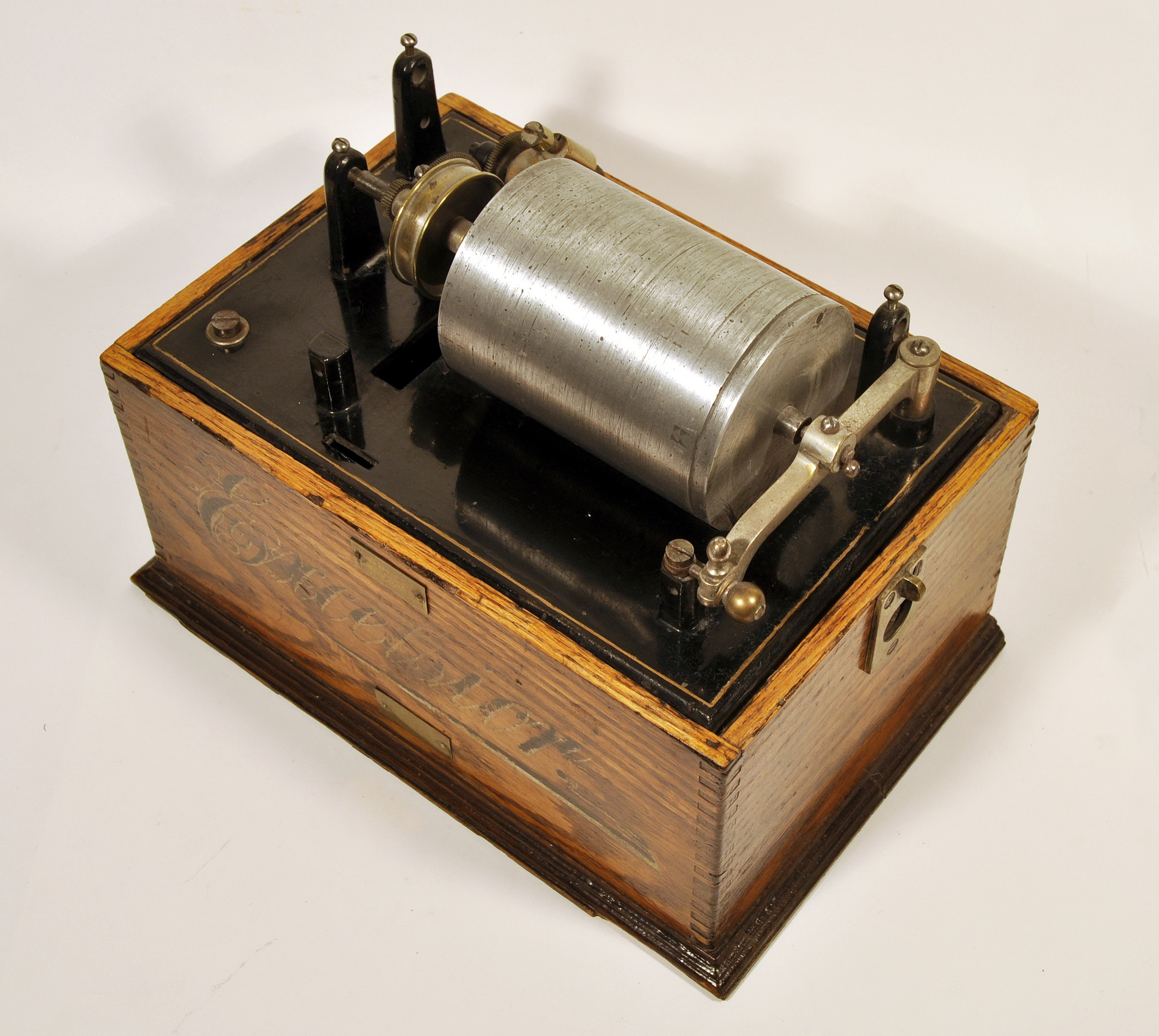 Cylinder phonograph Excelsior. Now it is part of collection in Museum of Science and Technology Belgrade.